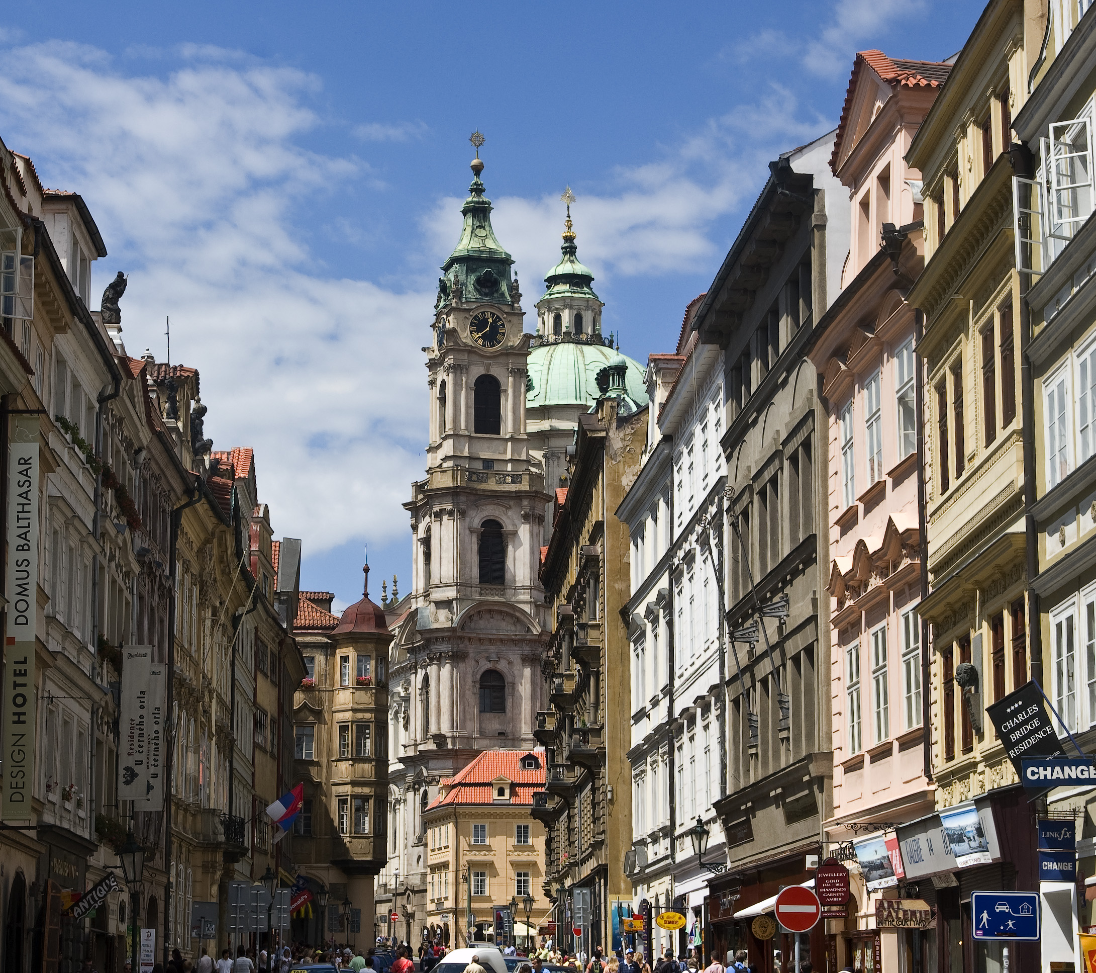 A busy street in Prague, capital of the Czech Republic.